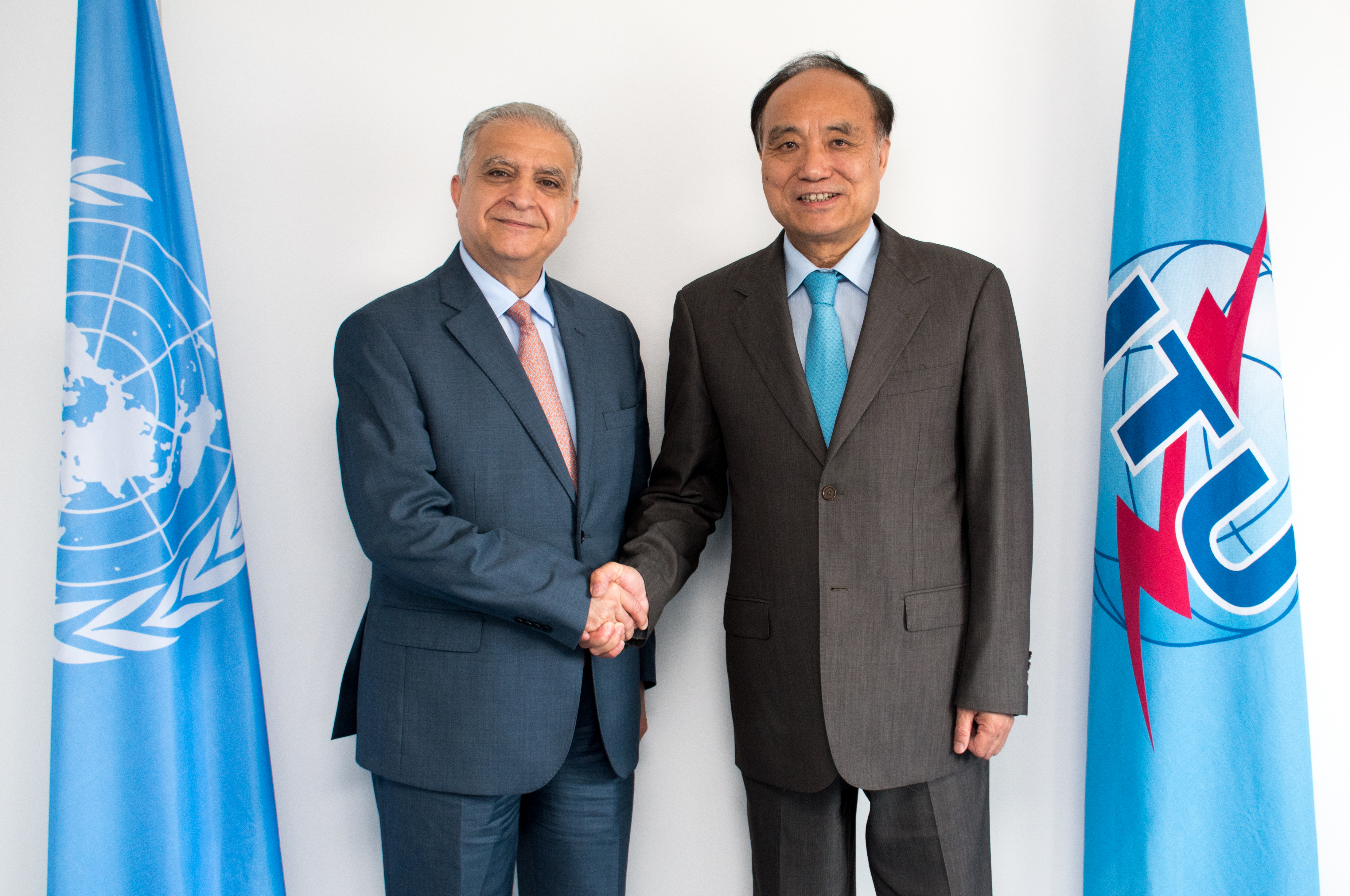 His Excellency Dr. Mohamed Ali Alhakim, Executive Secretary of The United Nations Economic and Social Commission for West Asia (ESCWA) and Mr Houlin Zhao, Secretary-General, ITU - ©ITU/A.Mhadhbi